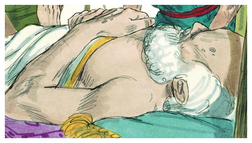 Biblical illustration of Book of Genesis Chapter 47